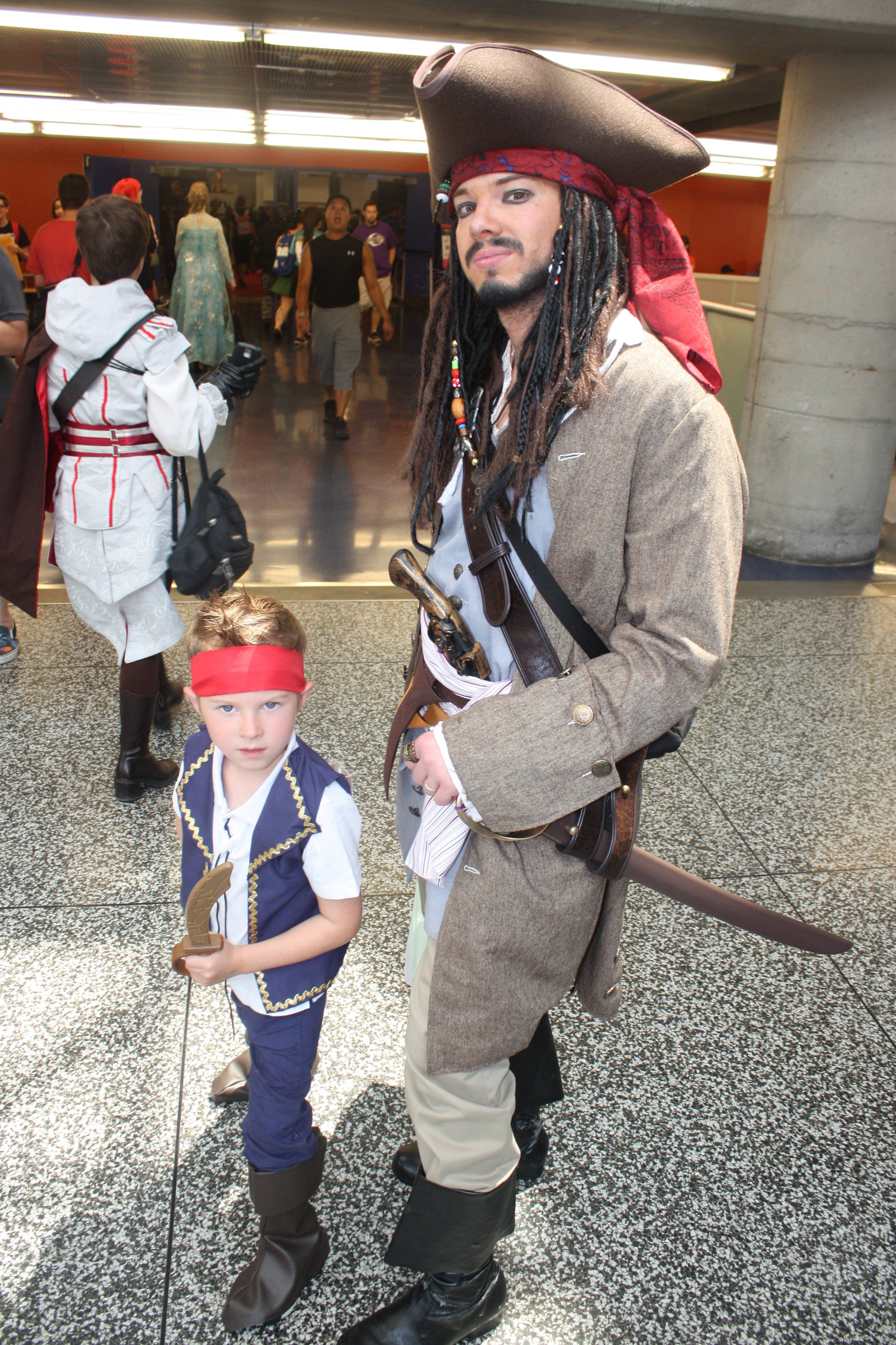 Cosplay on day three of Montreal Comiccon 2015.